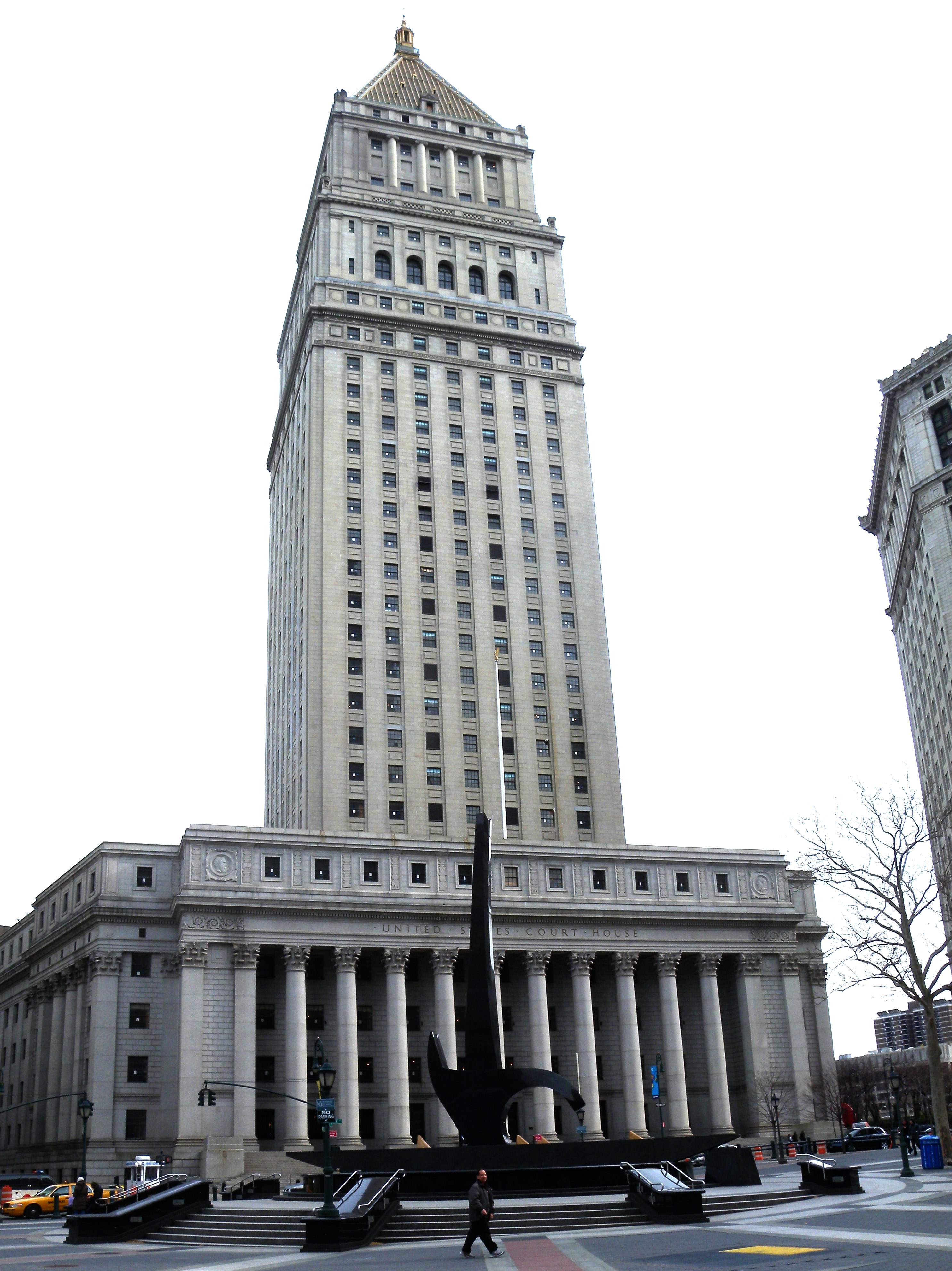 Looking south at Thurgood Marshall U.S. Courthouse on a cloudy afternoon.